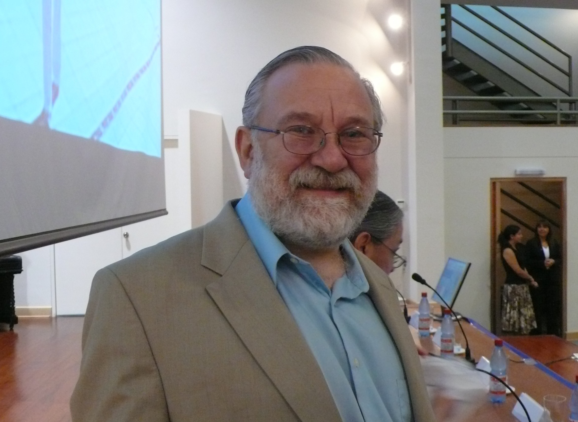 Peter Walter (born 1954), German-American molecular biologist and biochemist, professor at the University of California, San Francisco. Known for his work on protein folding and targeting as well as signal recognition. Co-author of the text book Molecular Biology of the Cell edited by Bruce Alberts. Member of the National Academy of Sciences and recipient of the Gairdner Award.